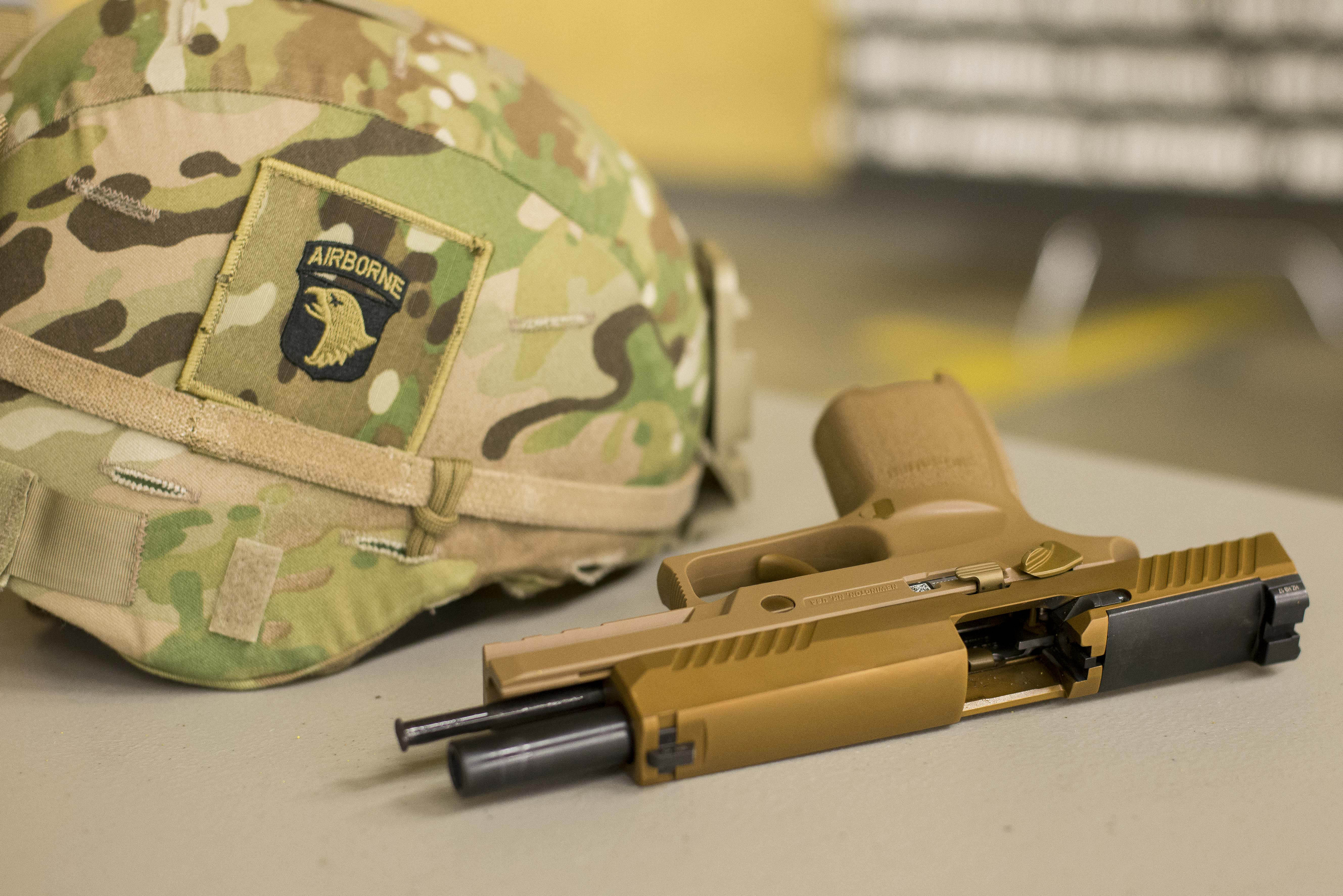 The M17 or Modular Handgun System is the Army’s newest handgun currently being fielded to Soldiers. (U.S. Army photo by Sgt. Samantha Stoffregen, 101st Airborne Division (Air Assault) Public Affairs)